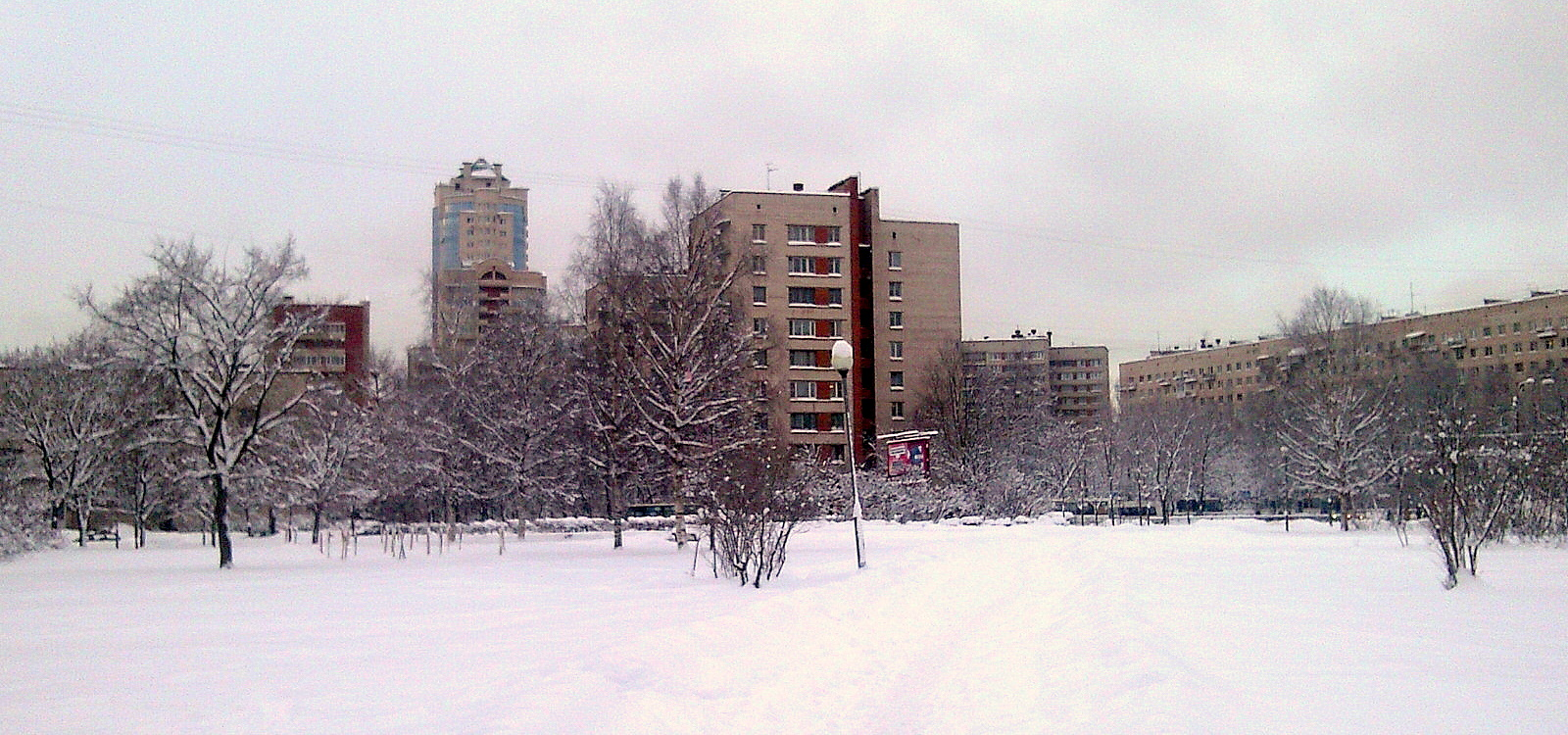 Novatorov Boulevard (Saint Petersburg)